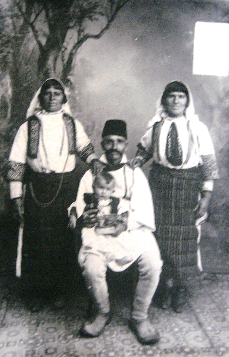 Family from village Capari, dressed in folklore costumes, recorded in the studio of the brothers Manaki in Bitola, photographed between 1898 - 1912 This media file is produced by Wikipedian in Residence in Category:Wikipedian in Residence at DARM in 2016.